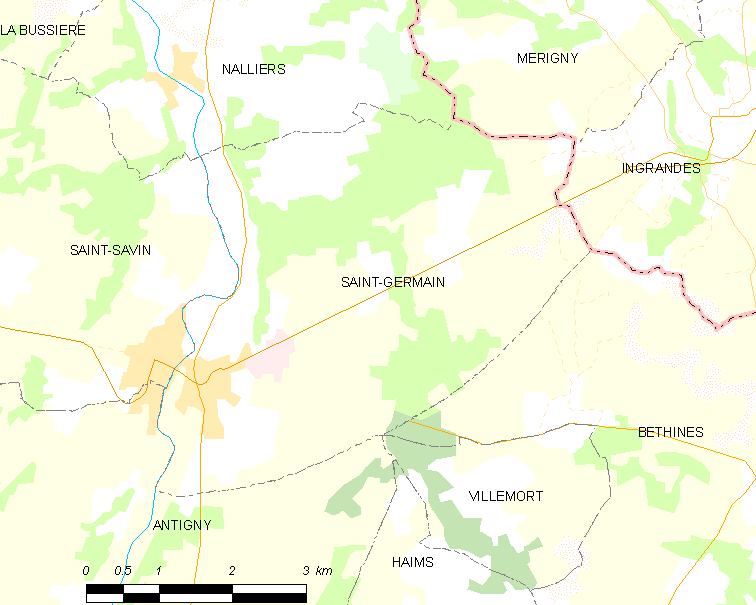 Map of French municipality Saint-Germain